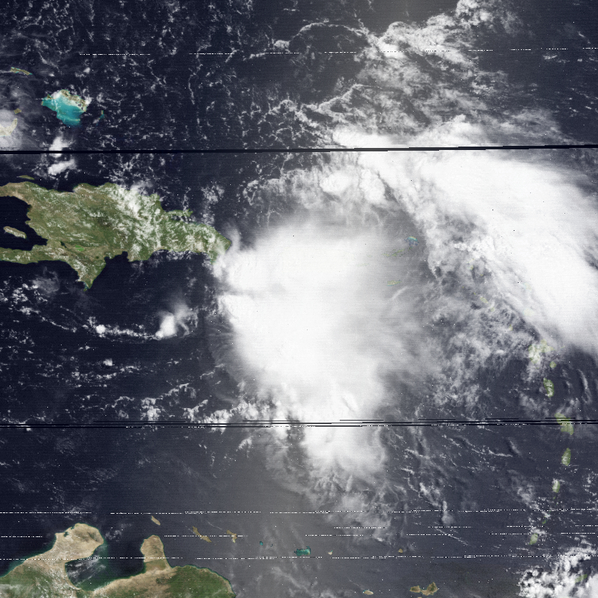 Tropical Depression Claudette after having tracked across Puerto Rico in the early afternoon hours of July 18, 1979.